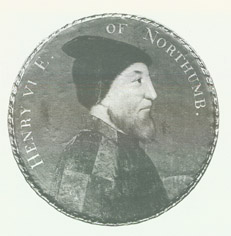 Henry Percy, 6th Earl of Northumberland, one-time betrothed of Anne Boleyn